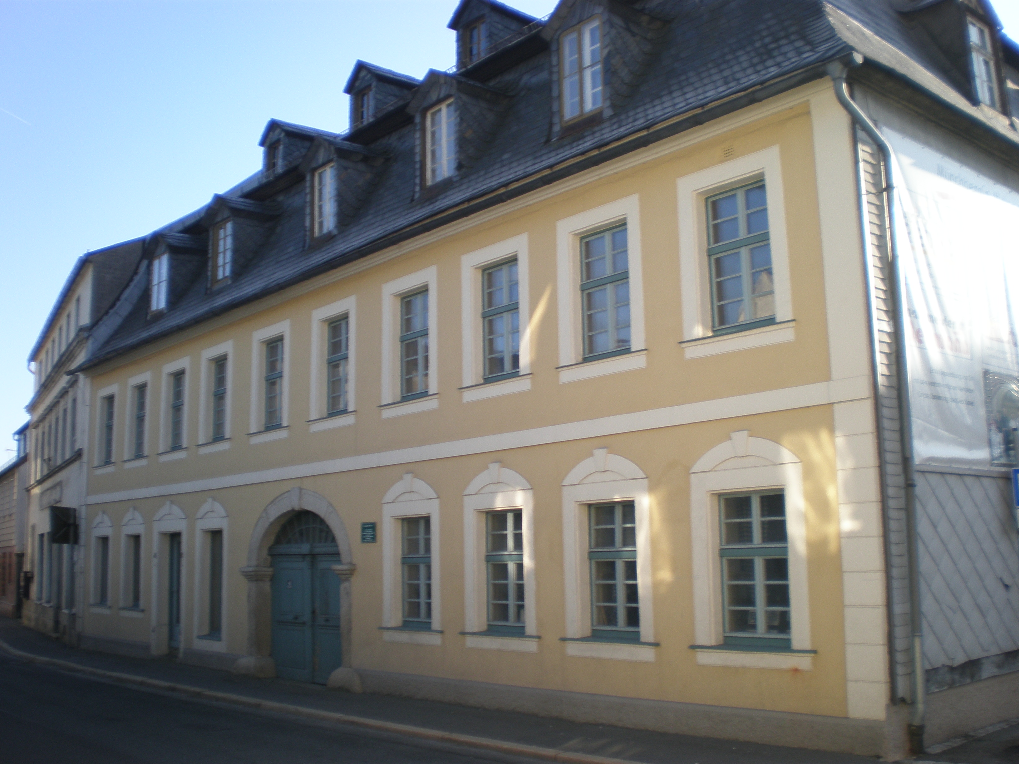 The so called Grimmlers Haus in Münchberg